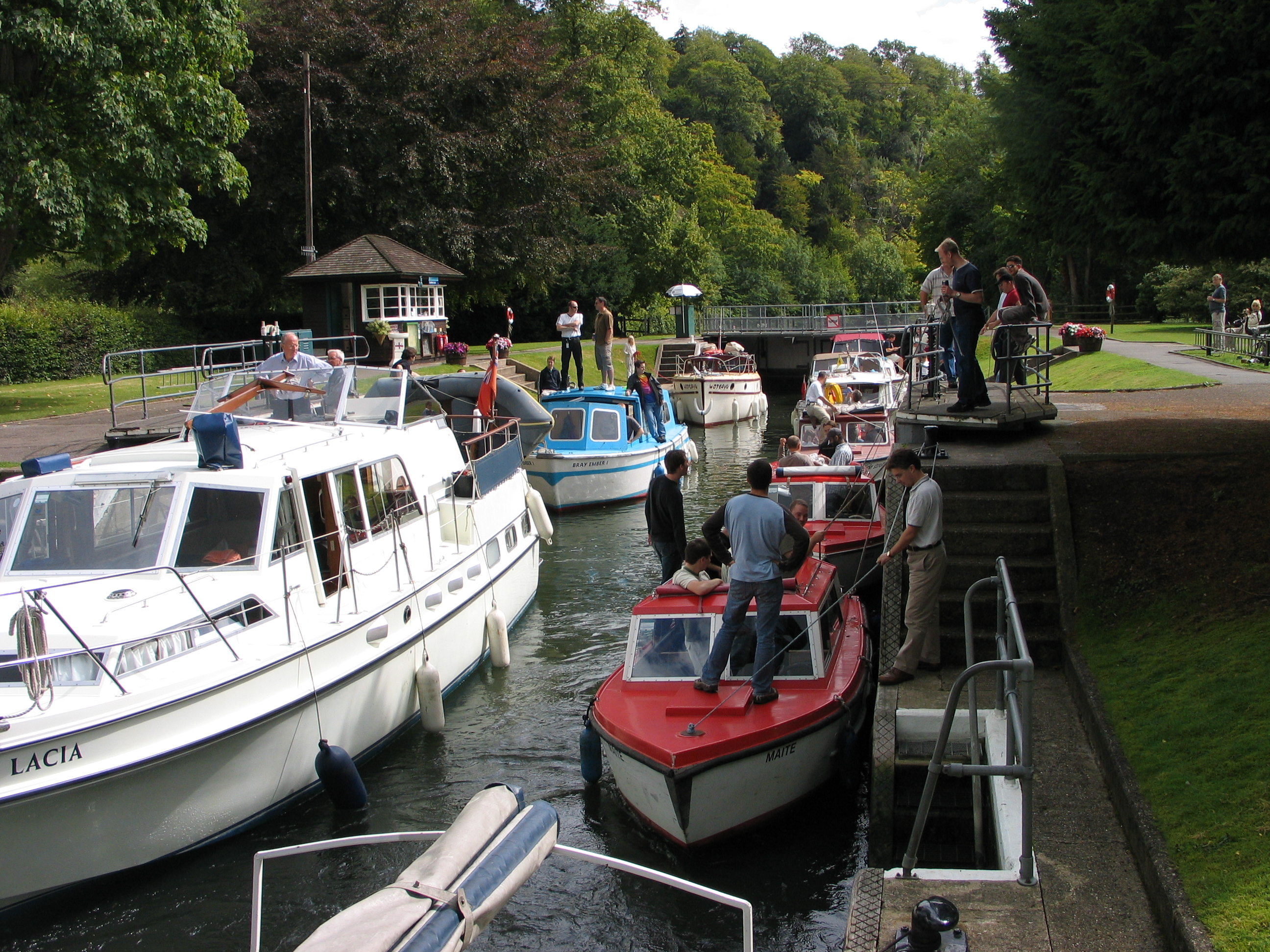 a busy cookham lock on the thames